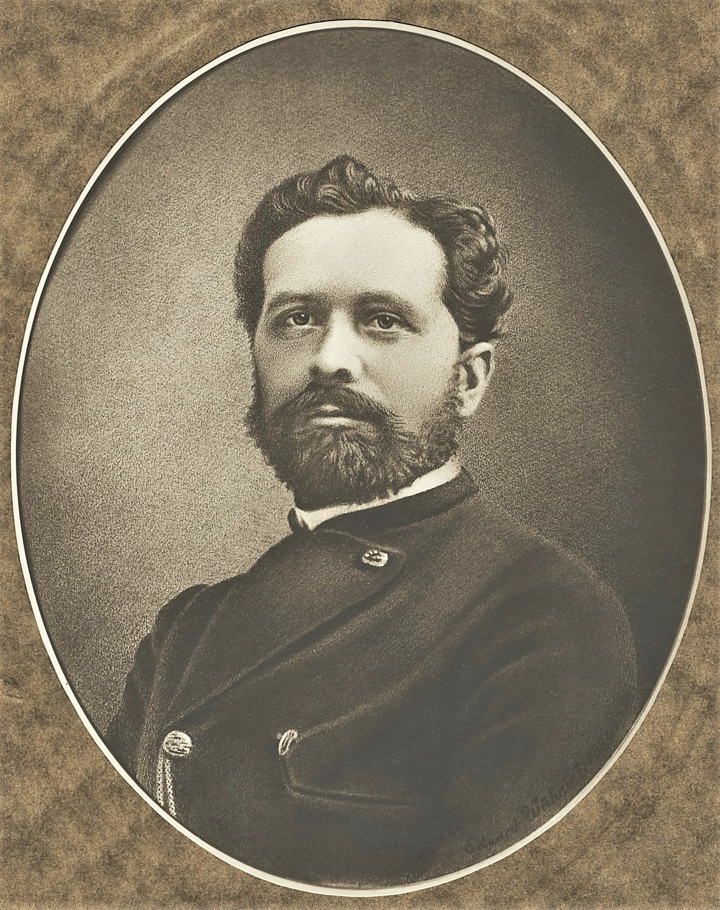 The only image of Georg Baumgarten, "Flying Forester" from Gruena (Saxony)